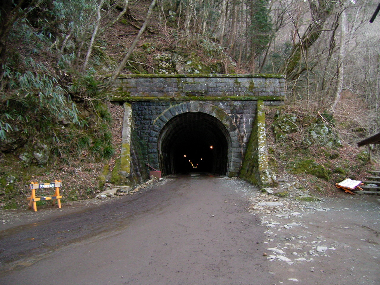 Old Amagi tunnel Shizuoka Japan